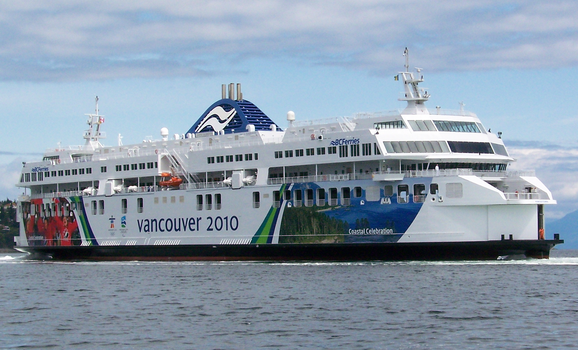 The BC Ferries roll-on/roll-off ferry M/V "Coastal Celebration" arrives at Departure Bay on June 18, 2008 after completing a 40-day delivery voyage from Flensburg, Germany. IMO Number: 9332779 MMSI Number: 316011409 Callsign: CFN514 Length: 160 m Beam: 28 m